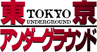 Tokyo Underground (東京アンダーグラウンド) logo.